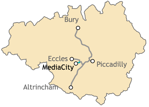 Outline of the route of extension of Manchester Metrolink to MediaCity:UK